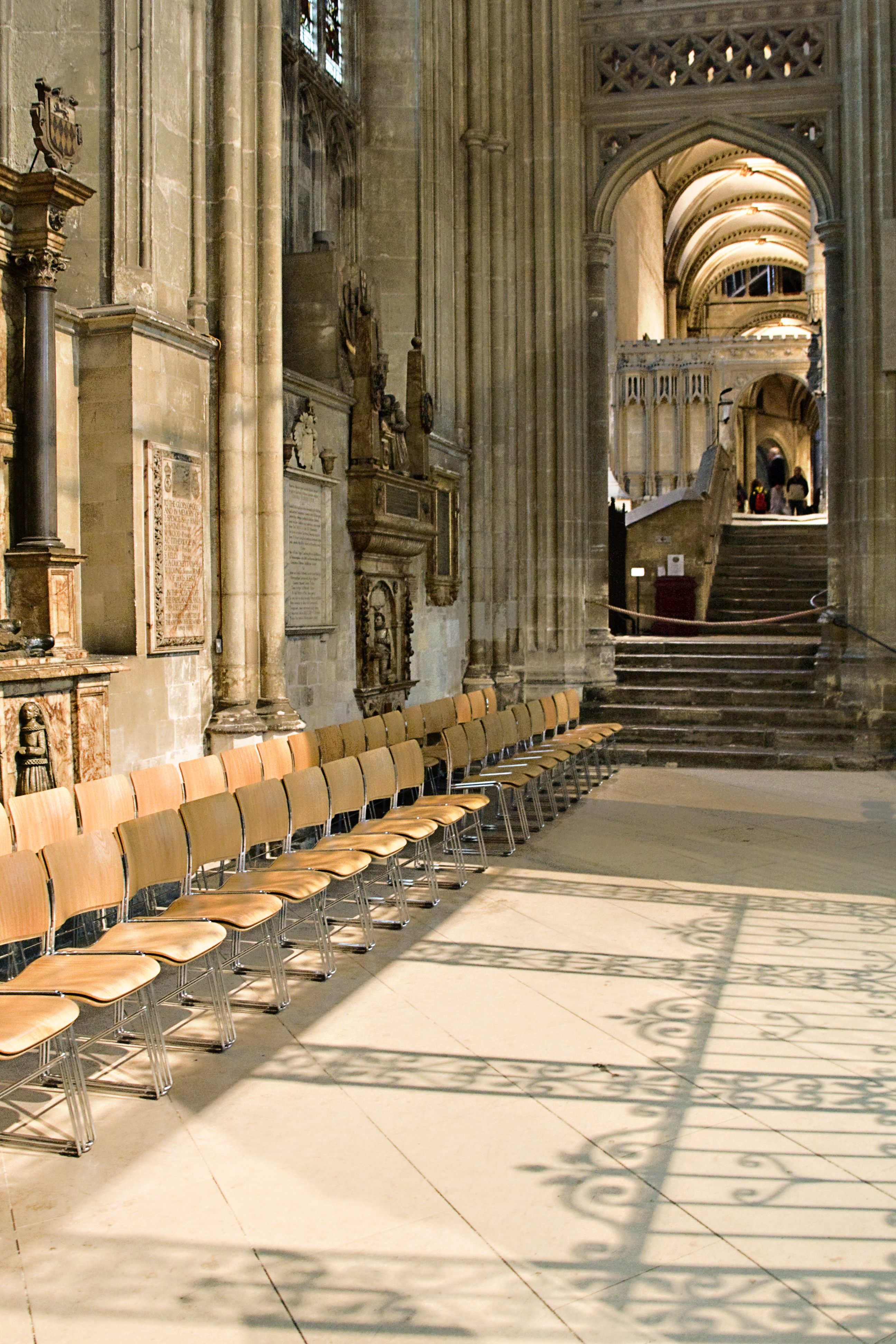 Canterbury Cathedral north aisle of the nave, the site of the burial of Richard of Dover, d. 1184, archbishop of Canterbury. This is sourced to Canterbury Cathedral Nave: Archaeology, History and Architecture by Blockley, Sparks and Tatton-Brown, published in 1997, page 30.